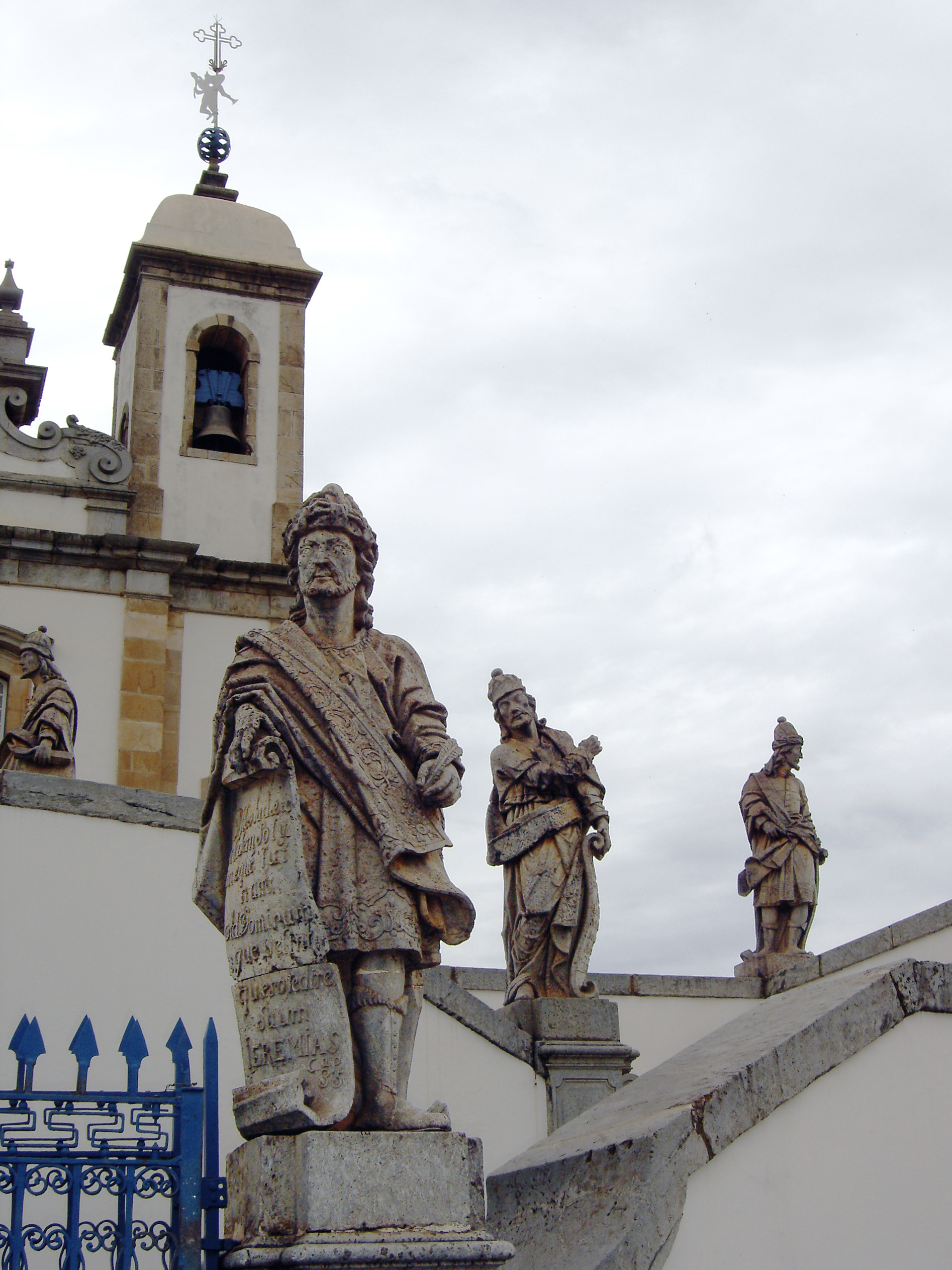 Four of the twelve Prophets sculpted by Aleijadinho in front of the church of the sanctuary of Bom Jesus of Matosinhos at Congonhas, Minas Gerais, Brazil ; in the foreground, Jeremiah.